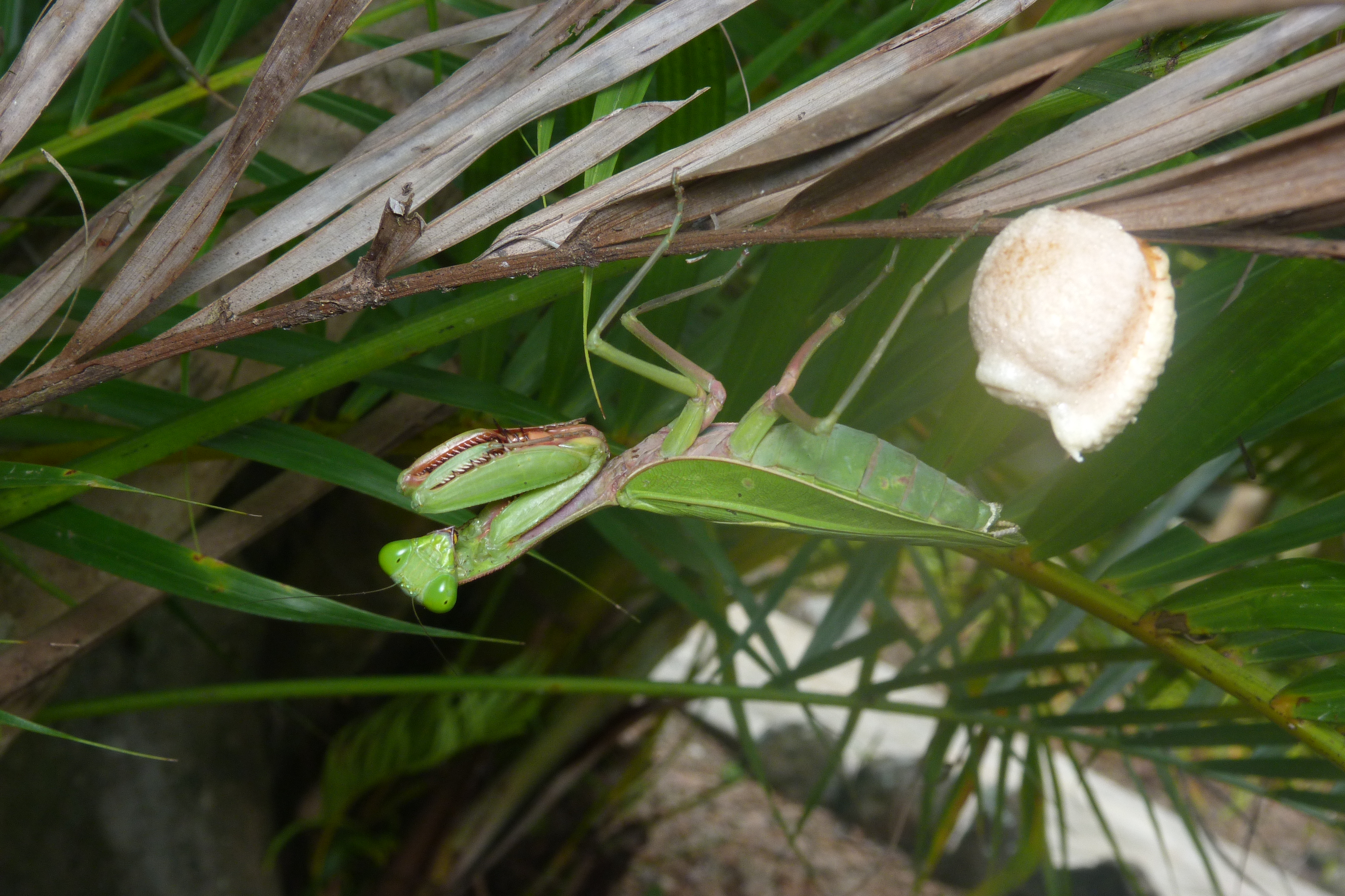 Hierodula majuscula (Tindale, 1923), female with fresh ootheca, Mission Beach, QLD, 23 December 2011